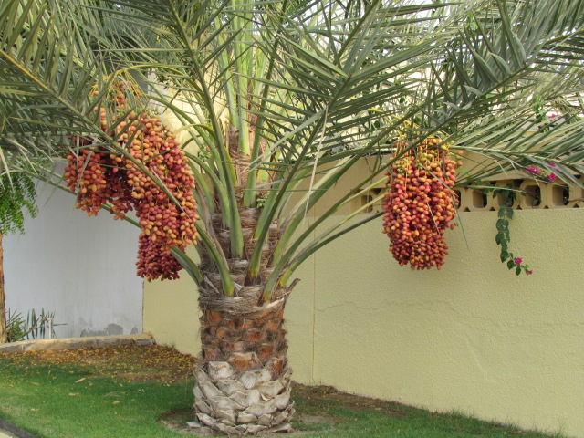 palm tree with dates-a shot from Rashidiya, Dubai, UAE